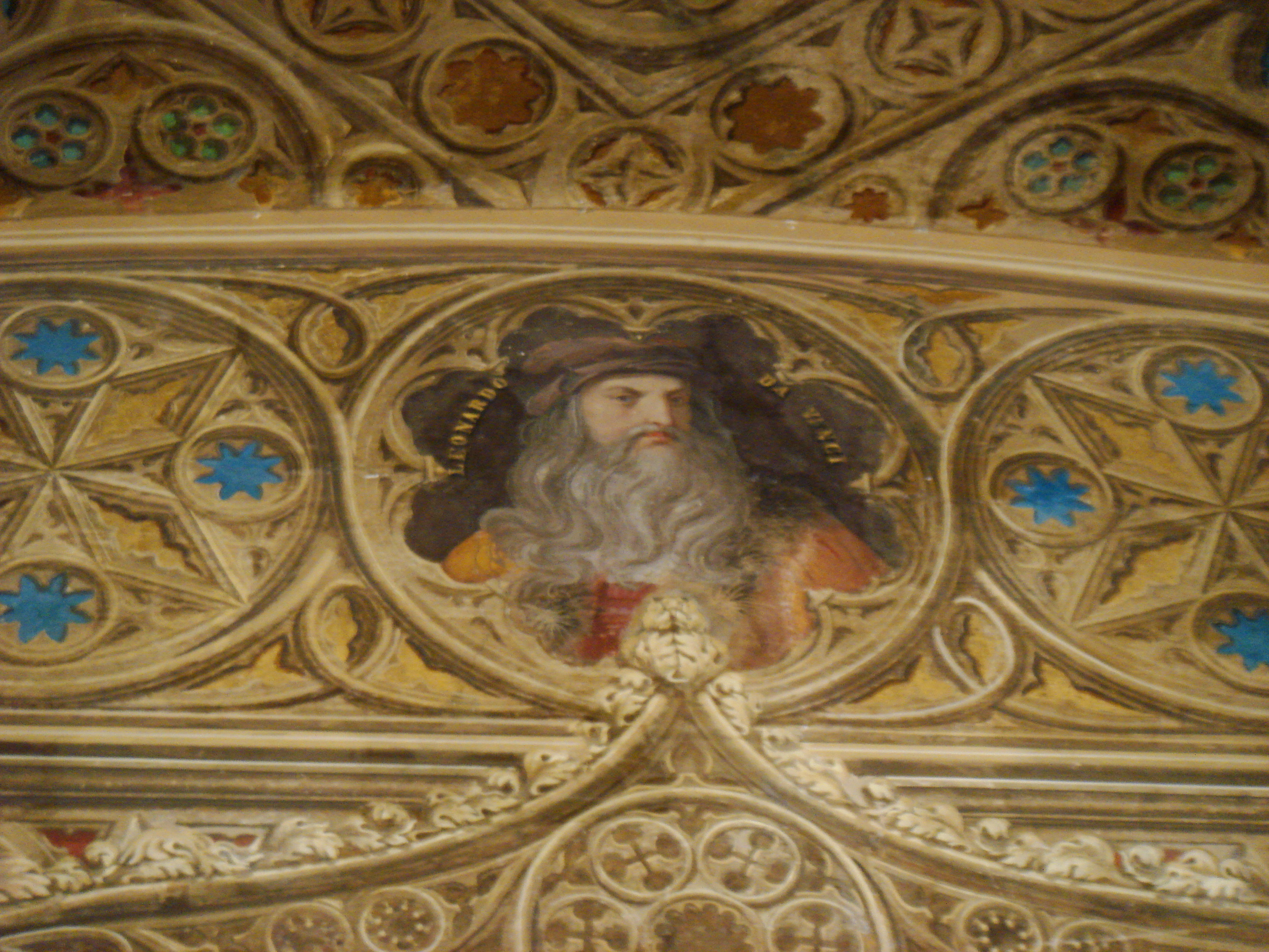 Rome, Italy..